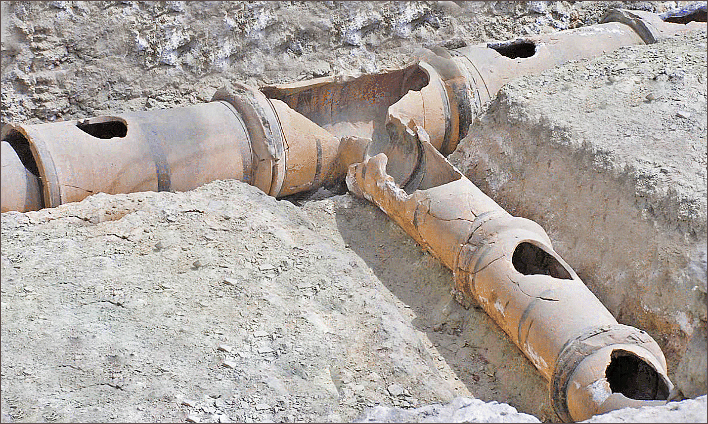 Old pottery pipes in Athens.